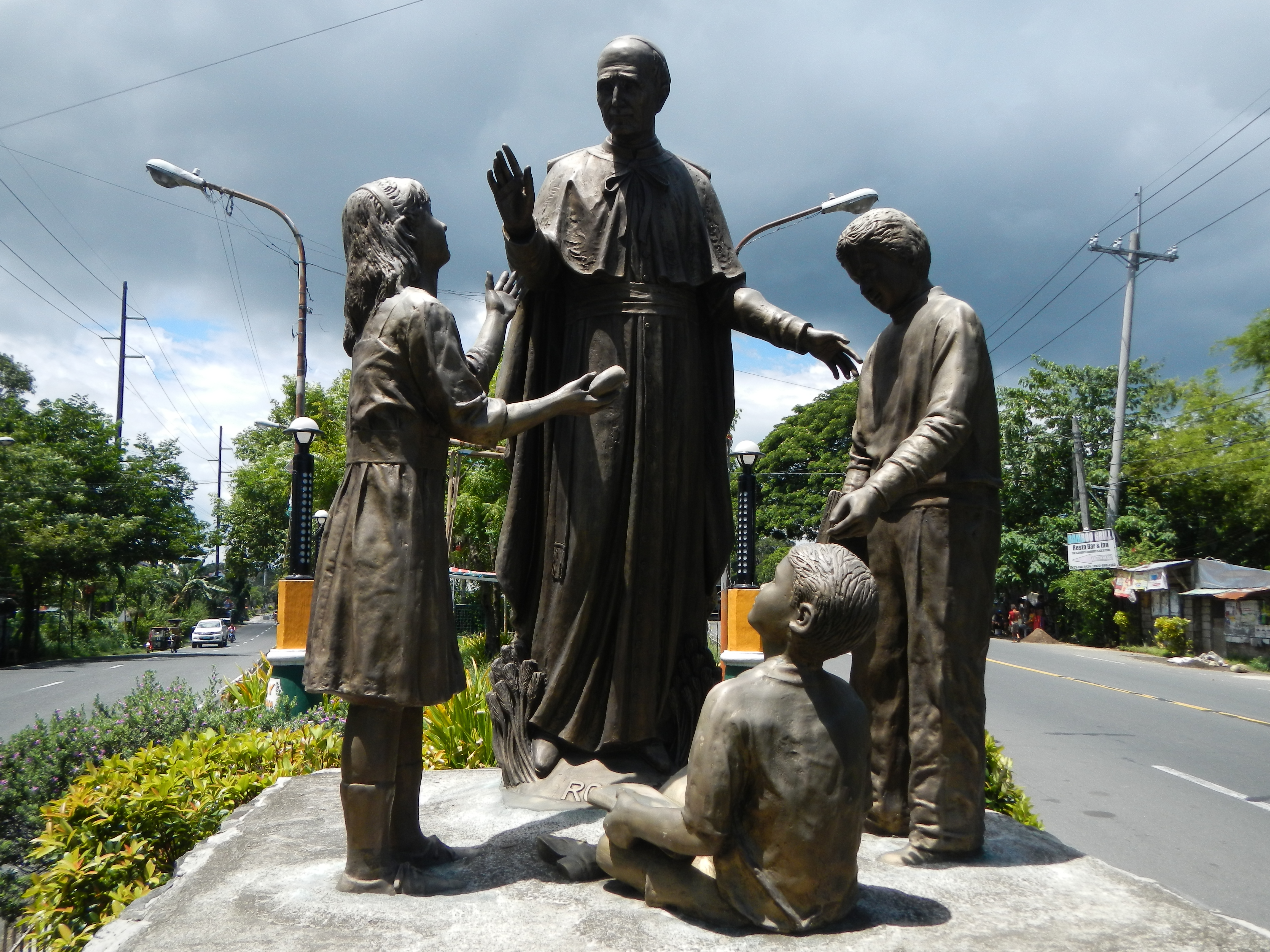 Saint Hannibal Monument[1] - Bay, Laguna[2] - St. Hannibal Mary Di Francia[3] (Annibale Maria di Francia, or Hannibal, (born July 5, 1851 in Messina, Italy, died June 1, 1927) His father Francis was a Knight of the Marquises of St. Catherine of Jonio, Papal Vice-Consul and Honorary Captain of the Navy. His mother, Anna Toscano, belonged to the noble family of the Marquises of Montanaro.) known as the Father of the orphans and of the poor. He discovered the divine command of Jesus: “rogate ergo…”(Mt. 9:37-38). July 19,2009- Rev. Fr. Dante F. Quidayan, RCJ, the first Rogationist priest from Laguna, blessed a monument of the Father Founder, Saint Hannibal Mary Di Francia, which was installed at the Bay junction. [4] --- Bay, Laguna[5] (is a second class[6] municipality politically subdivided into 15 barangays, one of the oldest towns in the province of Laguna[7], Philippines, covering even Los Baños [8] and Calauan[9]. In 1581, Bay became the capital of the Province of Laguna de Bay and remained so until 1688 when the capital was moved to Pagsanjan. The Patron of Bay is Saint Augustine of Hippo [10] celebrating his Feast Day during August 28. [11] Coordinates: 14°8'1"N 121°15'9"E [12] Laguna, Region 4, Philippines, Asia Geographical coordinates: 14° 10' 58" North, 121° 17' 5" East This place is situated in Laguna, Region 4, Philippines, its geographical coordinates are 14° 10' 58" North, 121° 17' 5" East and its original name (with diacritics) is Bay. LLDA [13])